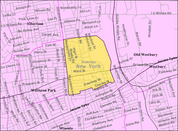 U.S. Census 2000 reference map for East Williston, New York